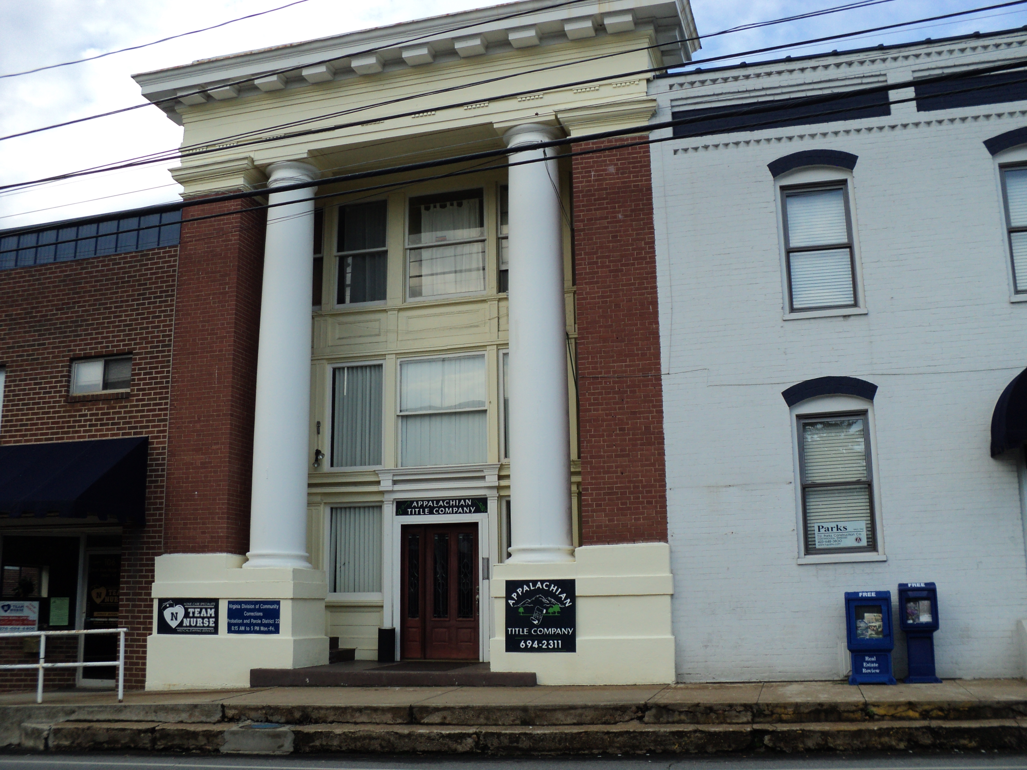 View of buildings, Blue Ridge Street, downtown Stuart, Patrick County, Virginia.